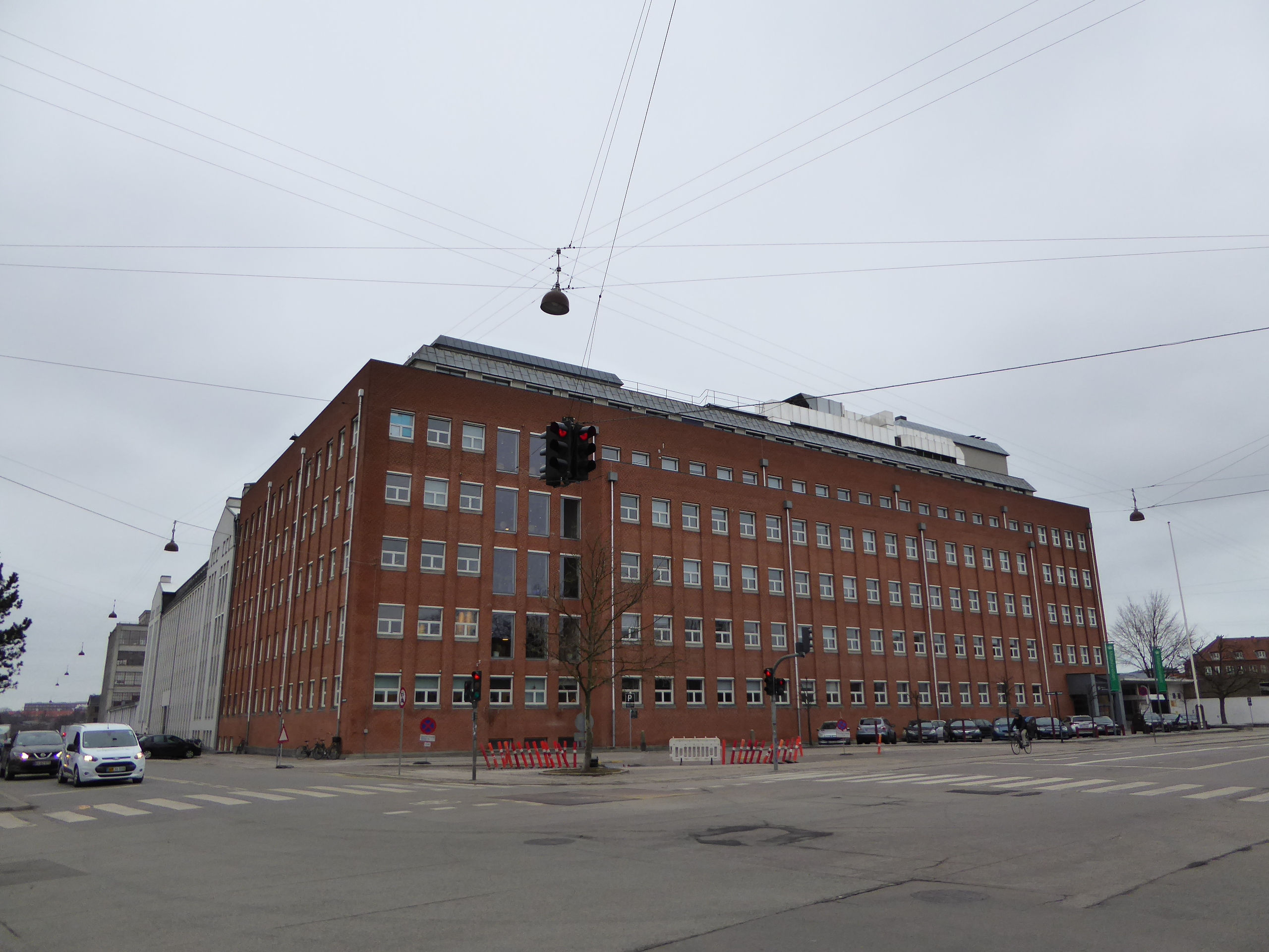 Office building of Miljøstyrelsen (The Danish Environmental Protection Agency) at Haraldsgade in Østerbro in Copenhagen.